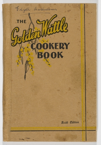 Cover of the Golden Wattle Cookery Book, 6th edition